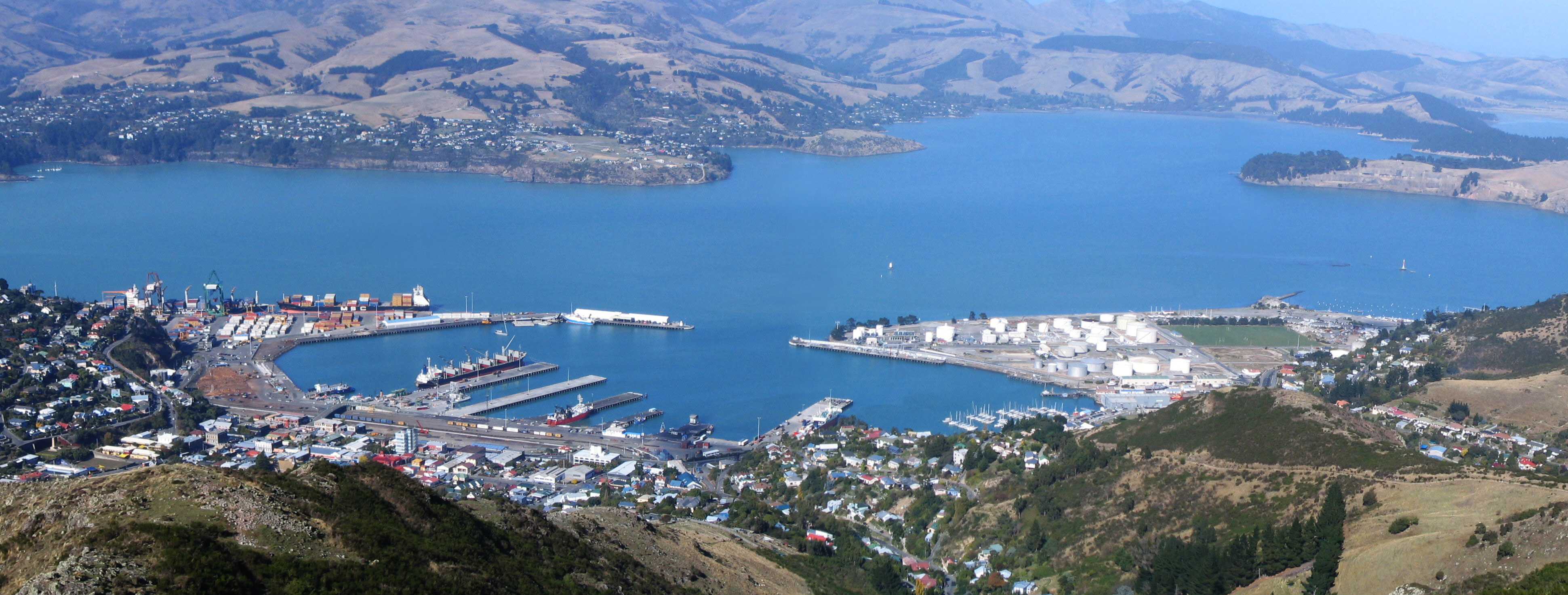 Lyttelton Harbour, viewed from Mt Cavendish, Port Hills, Christchurch, New Zealand.